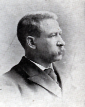 Thomas A. E. Weadock, US Representative from Michigan